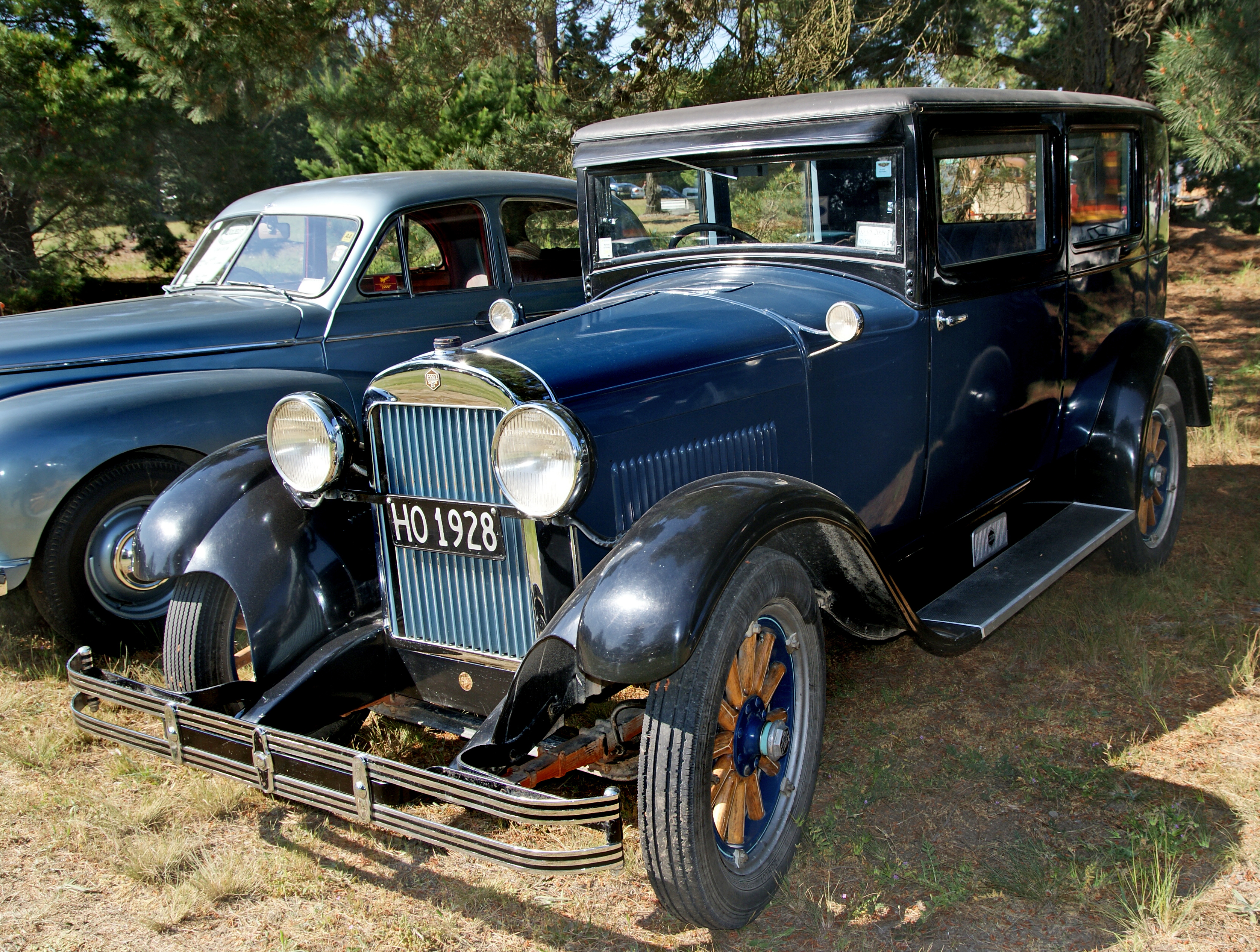 1928 Essex Super Six Coupe Model Year History Overview: Introduced in 1922, the Hudson-built low-priced Essex was a sales winner in its first two years on the market. During this period it was a third place seller behind Ford and Chevrolet. It not only had a lively four-cylinder engine, but was the first mass-produced car to offer closed body types in the popular price field. In 1924 Essex adopted a less reliable six, and its image and popularity suffered, and Hudson Motor Company went into a slide. In 1932 one of Hudson’s founders, Roy D. Chapin, Sr., returned to the company and began a turn-around. A new beefed up six cylinder engine yielding 70 hp was developed and installed in a new 106-inch-wheelbase series dubbed the Terraplane. The ’32-‘33 Hudson Terraplane turned the company’s fortunes around. It was fast—up to 80 mph; it was economical – up to 25 mpg; and it was cheap – as little as $425.00.